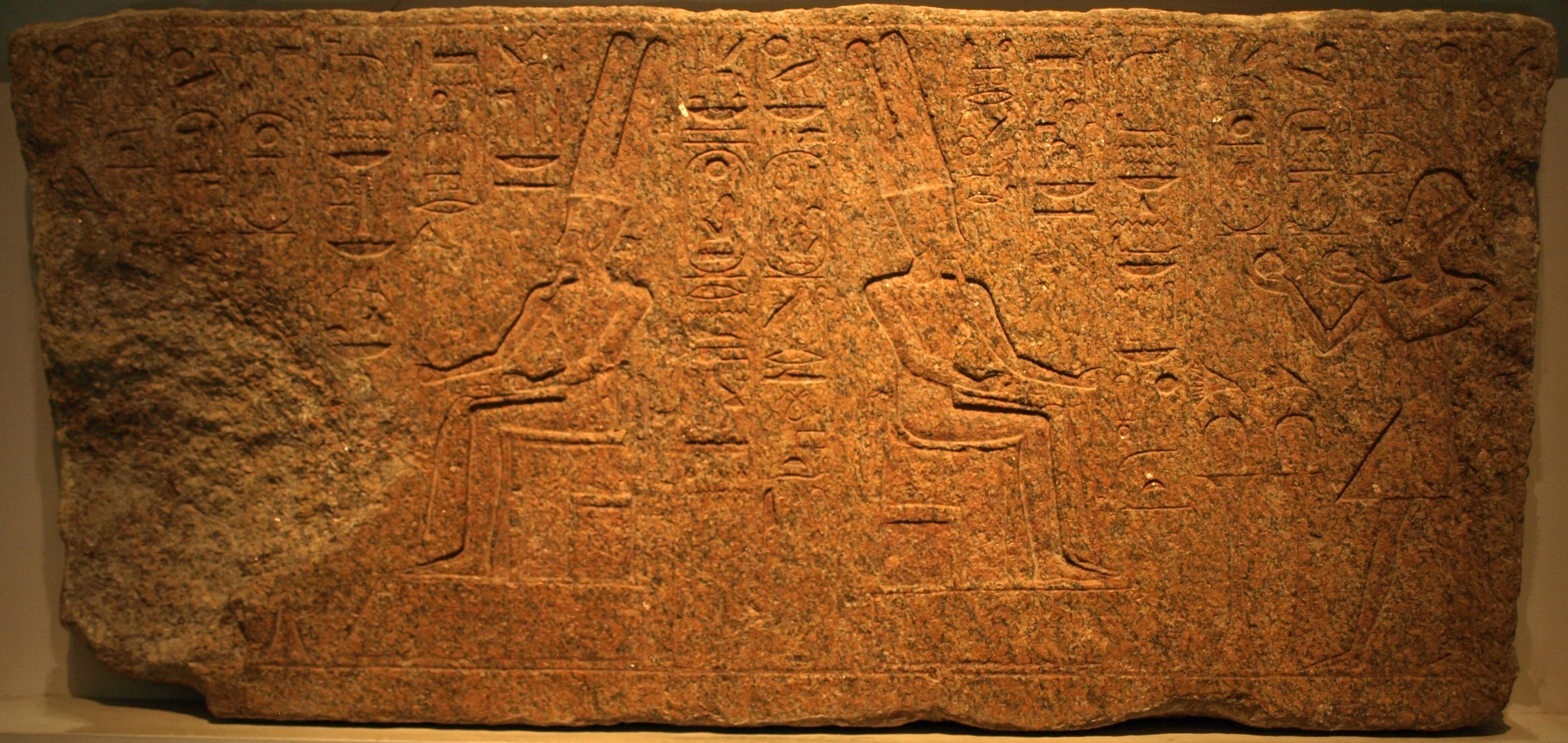 Relief of the pharaoh Amenophis II, made of red granite. It depicts the pharaoh worshiping the god Amun. From the 18th dynasy, circa 1430 BC, with an additional inscription by Sethos I (circa 1290 BC). Originally from Bubastis. EA 1103.